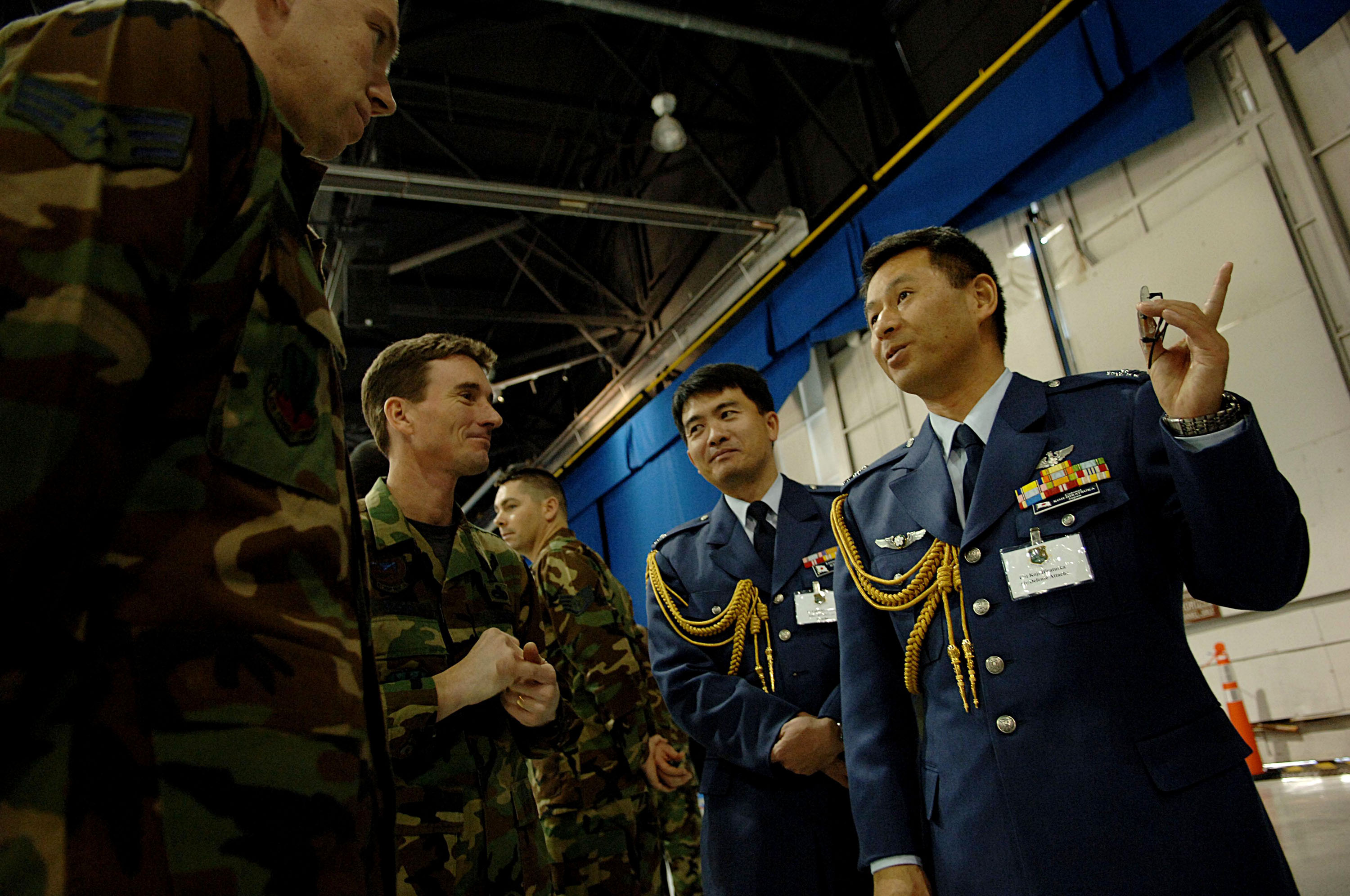 Senior Airman Matthew St. John (left), an avionics specialist with the 27th Fighter Squadron at Langley Air Force Base in Virginia, and Master Sgt Donald Bishop (left center), a Low Observables (L.O.)specialist with the 1st Equipment Maintaince Squadron,speak with Lt Col Ichiro Sato (right center) and Col Koji Hirasuka (right), both Air Defense Attache's with the Japanese Embassy in Washington D.C., about the capabilities of the F-22A Raptor on February 31, 2007 during a press conference with F-22A Raptor maintainers and pilots from the 27th Fighter Squadron who will be deploying to Kadena Air Base by weeks end. The deployment to the Pacific Air Forces (PACAF) installation is the first real world deployment for the 27th Fighter Squadron with the F-22A Raptor. (USAF Photo By Staff Sgt Samuel Rogers)